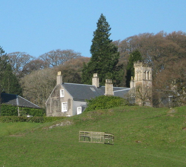 Craigengillan House This is Craigengillan House on the Craigengillan Estate.